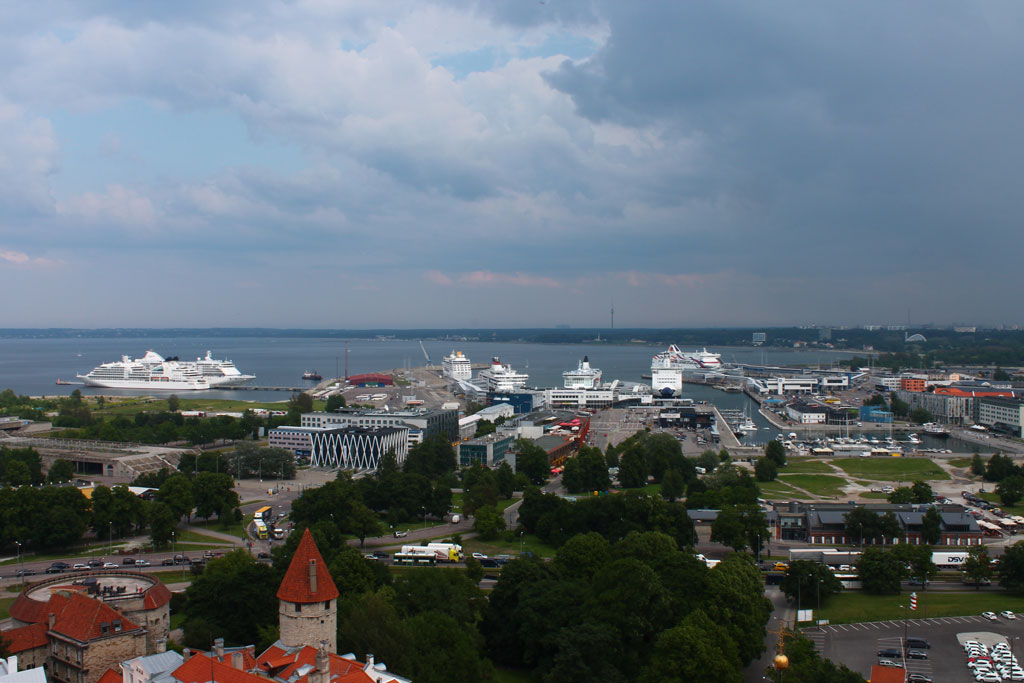 Ships in the Port of Tallinn 26 June 2013 (Seabourn Sojourn, Seven Seas Voyager, Adonia, Viking XPRS, Finlandia, SPL Princess Anastasia, Baltic Queen)